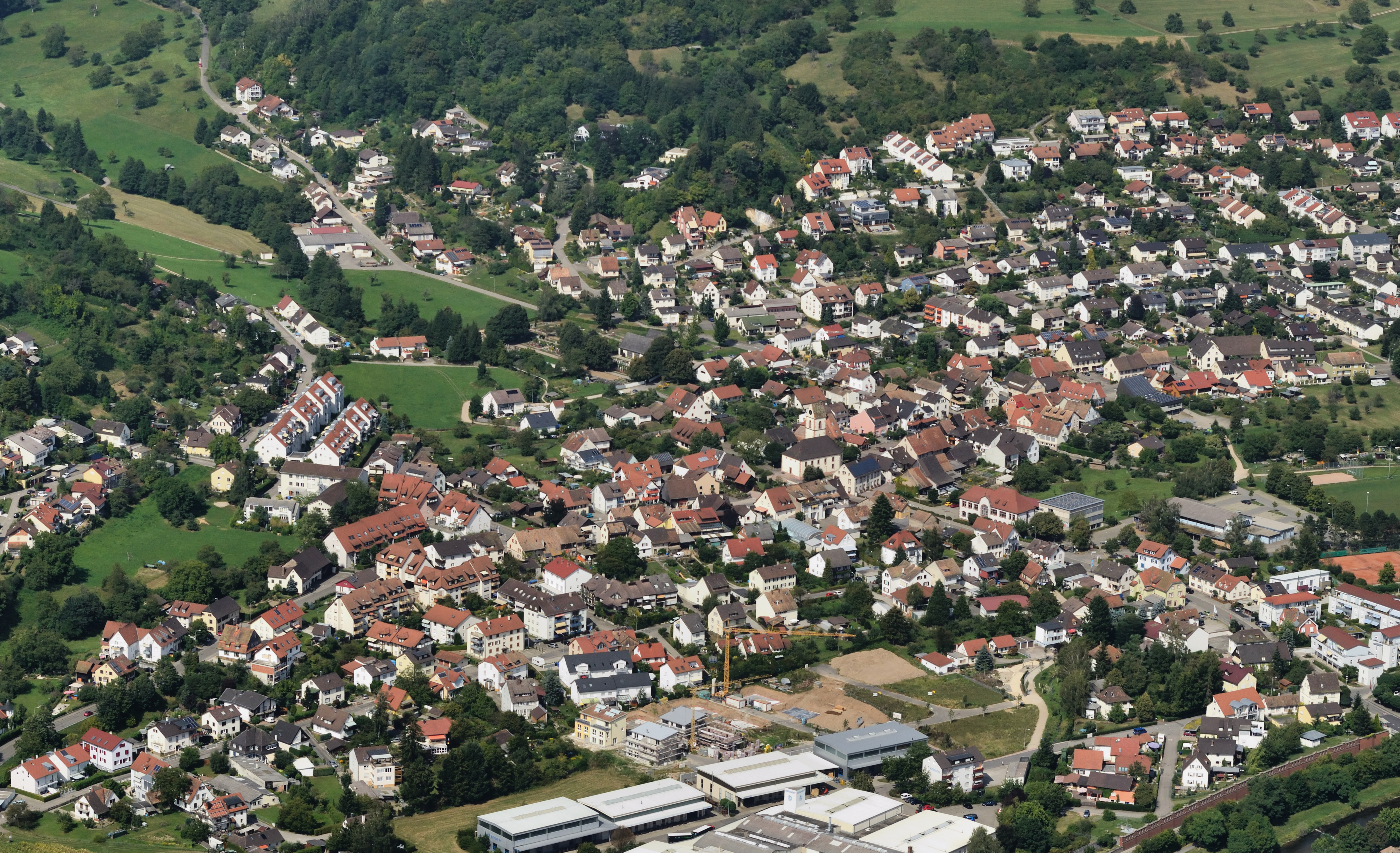 aerial view of Hauingen